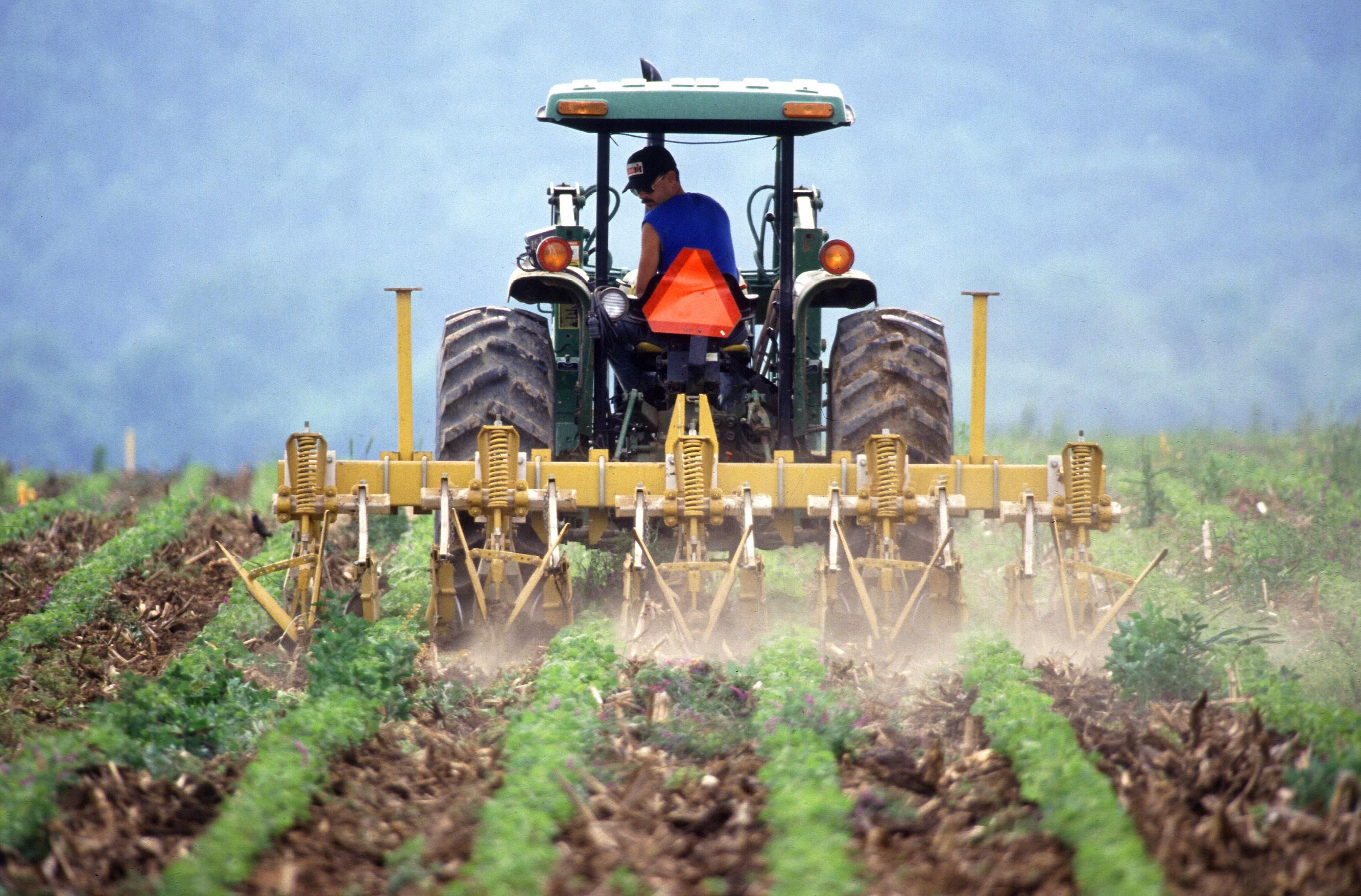 Image title: Farmer and tractor tilling soil Image from Public domain images website